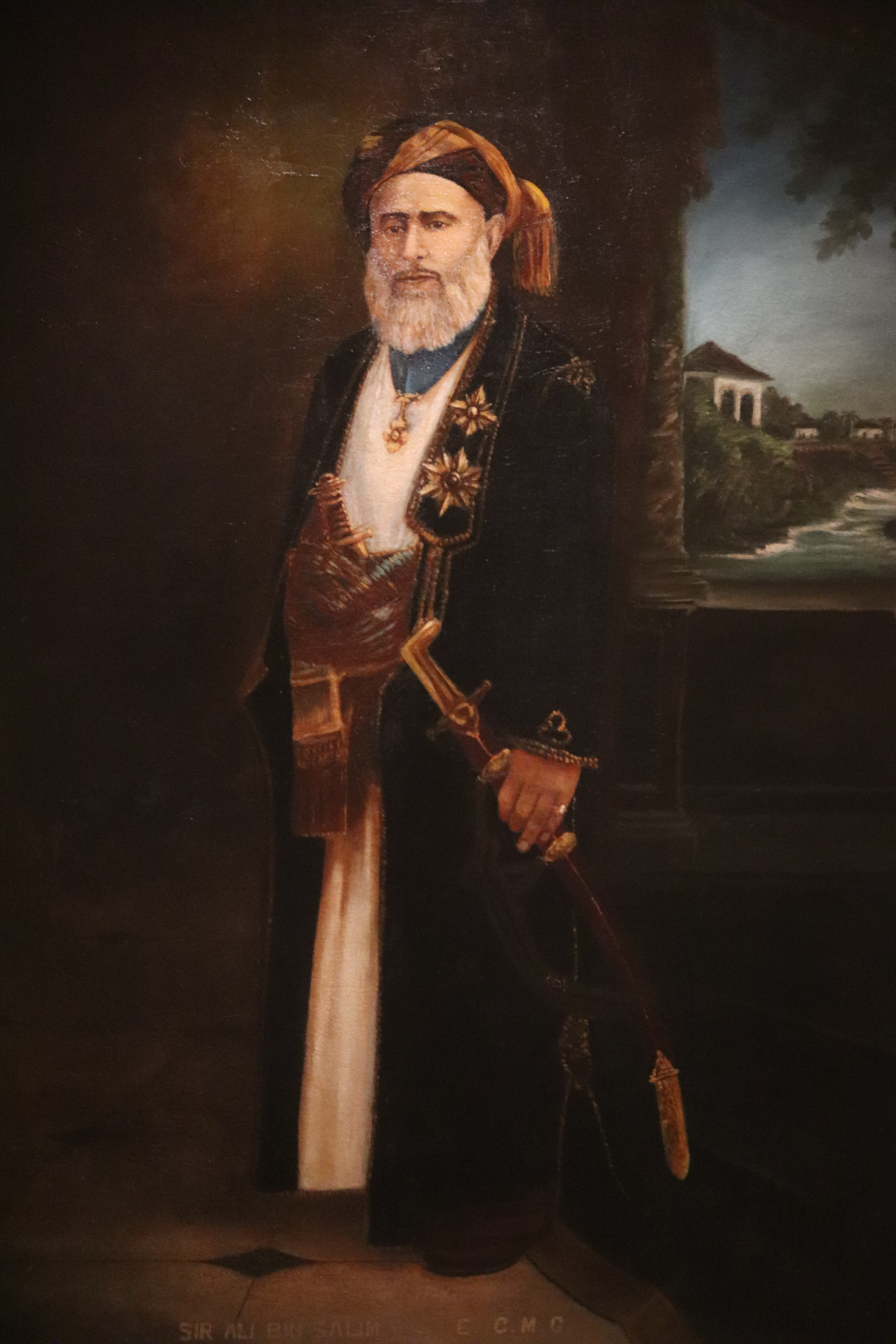 A picture of a painting of Sir Ali bin Salem from the National Museum of Oman